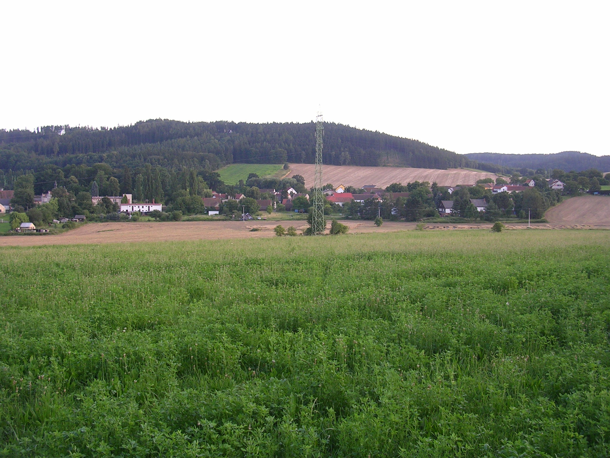 Sedlčany-Třebnice, Příbram District, Central Bohemian Region, the Czech Republic. A view from the South.